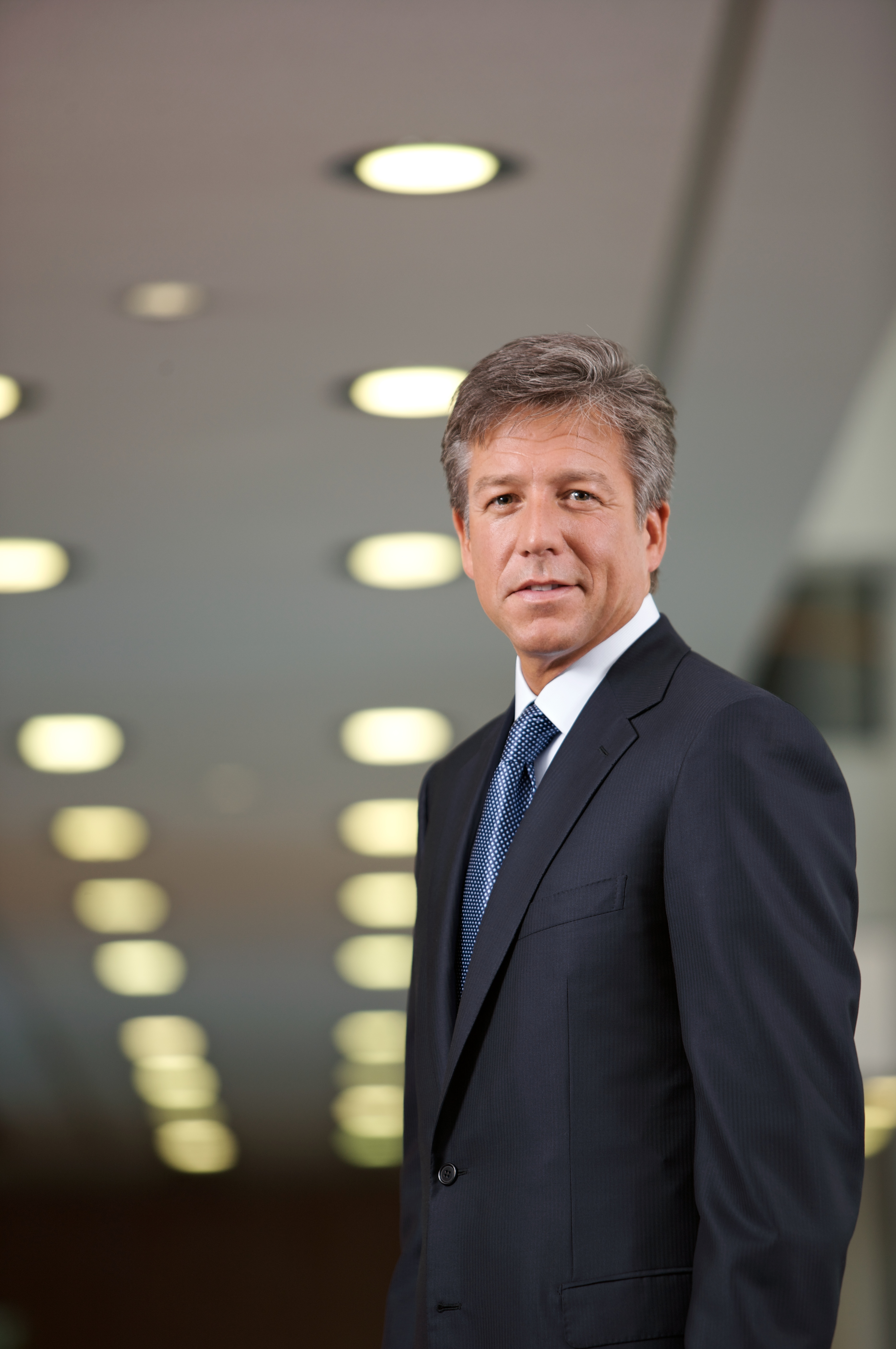 Bill McDermott, SAP AG CEO and Executive Board Member